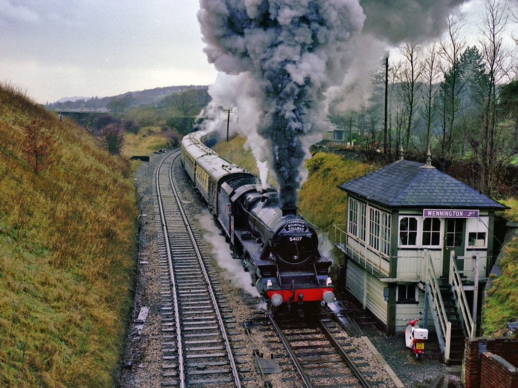 London Midland and Scottish Railway Stanier 5P5F 4-6-0 ?Black Five? class locomotive number 5407 of Springs Branch MPD passes Wennington signal box on the Up Main line working the Carnforth to Hellifield leg of a Cumbrian Mountain Pullman charter. Saturday 27th November 1982